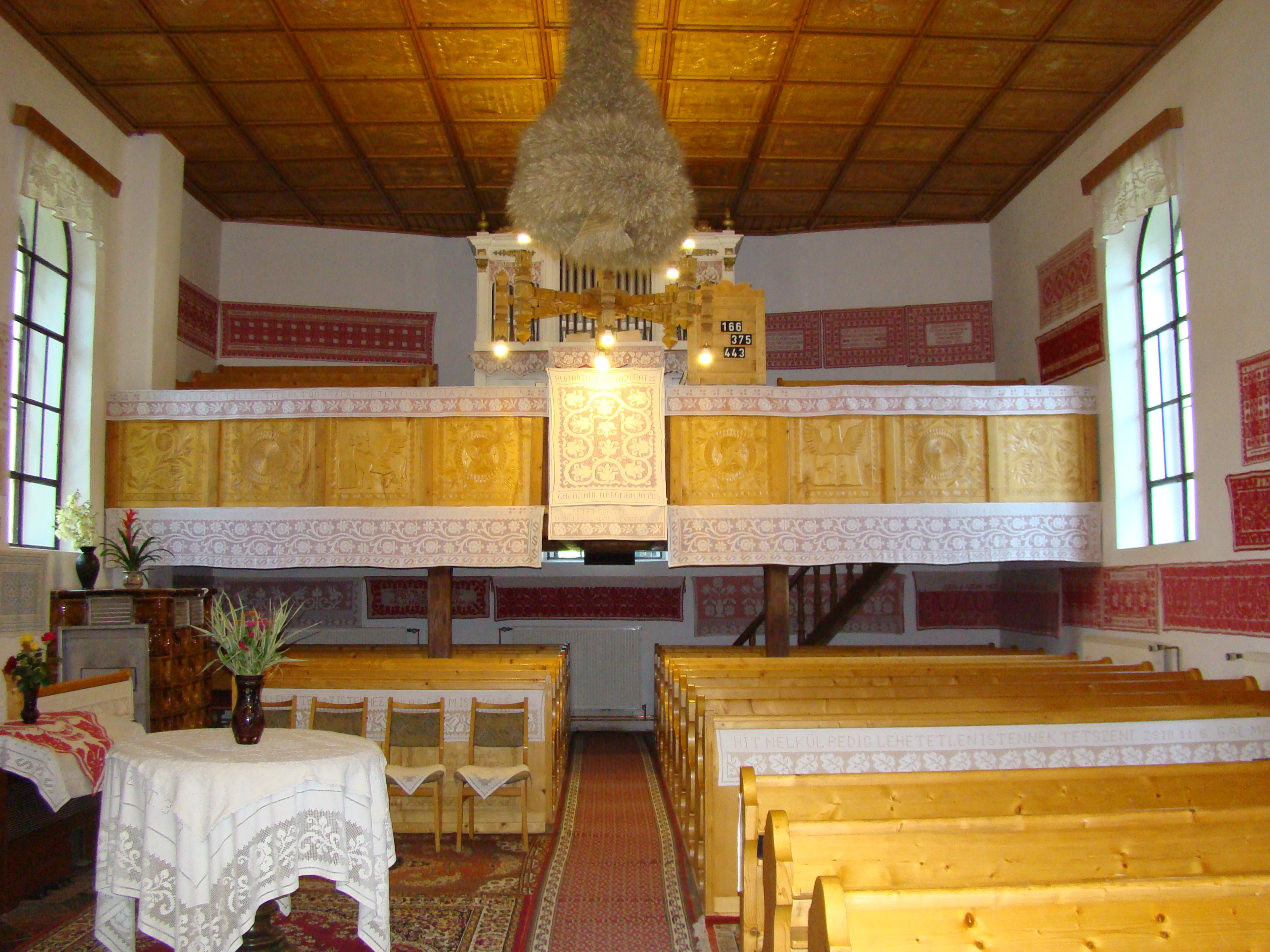 Jebucu (Zsobok), Sălaj county, Romania